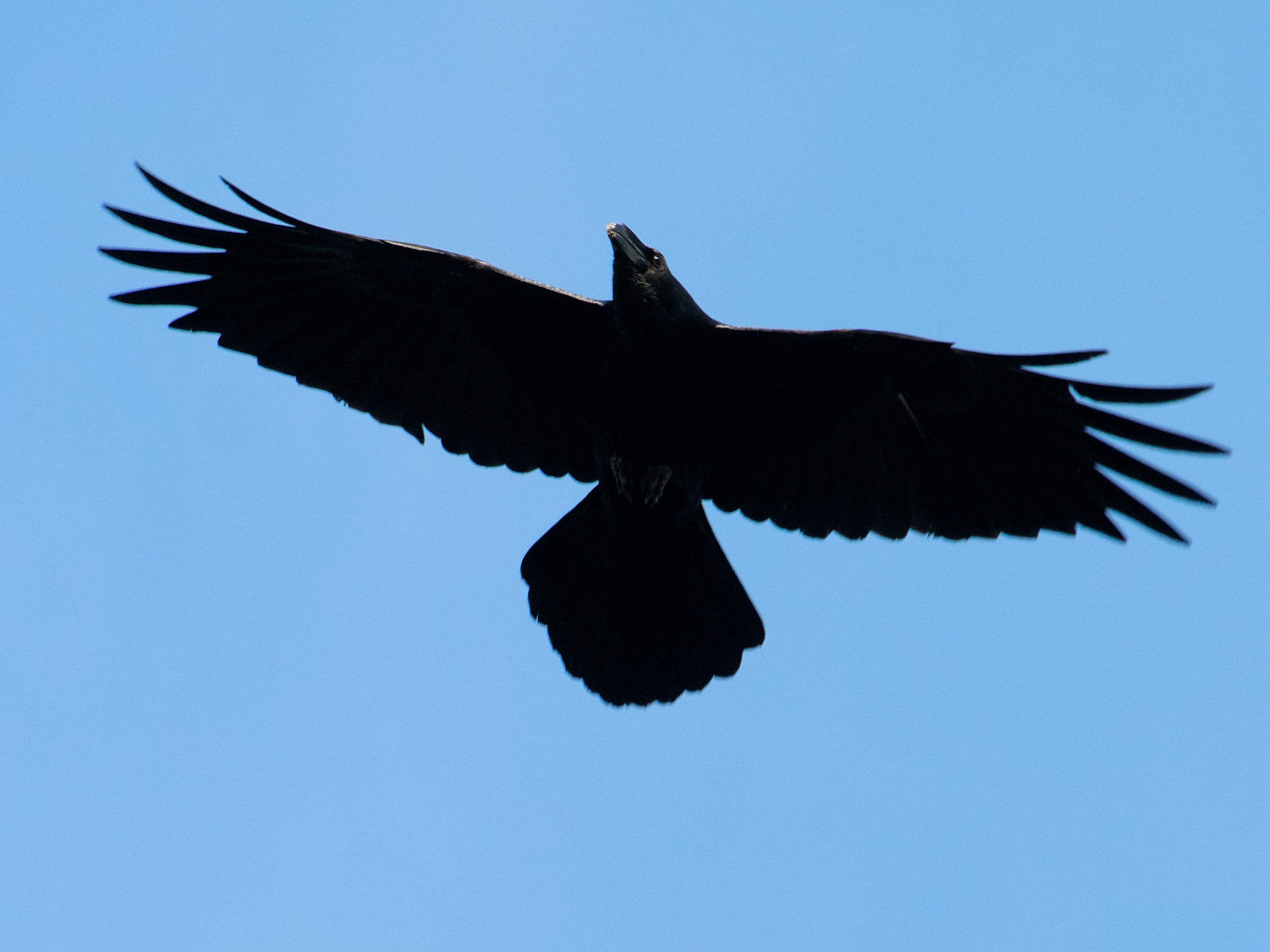 500px provided description: Common Raven (Corvus corax) soaring over the Montserrat mountain in Catalonia. [#bird ,#wildlife ,#Catalonia ,#Montserrat ,#Corvus corax ,#Common Raven]